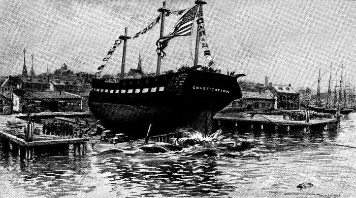 The launching of the Constitution from Hart's Shipyard, Boston, October 21, 1797.